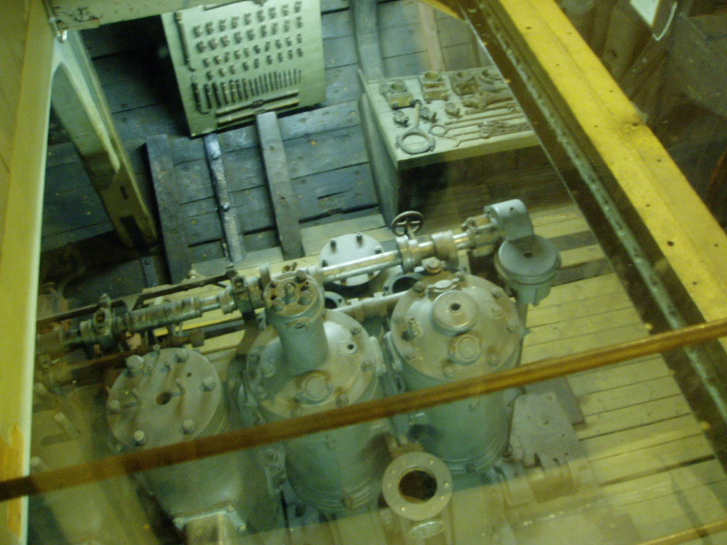 It's the diesel engine of the boat Fram